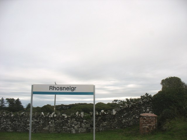 Rhosneigr Station